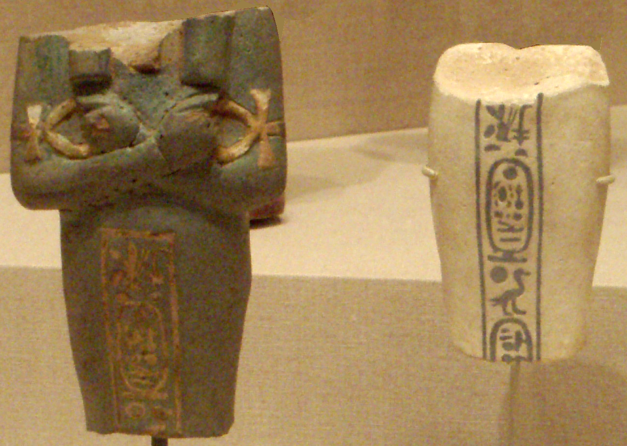 Two fragmentary funerary shabtis of Akhenaten.